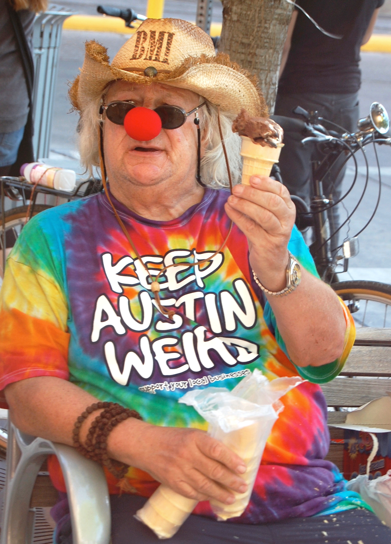 photo by Sarah Vasquez